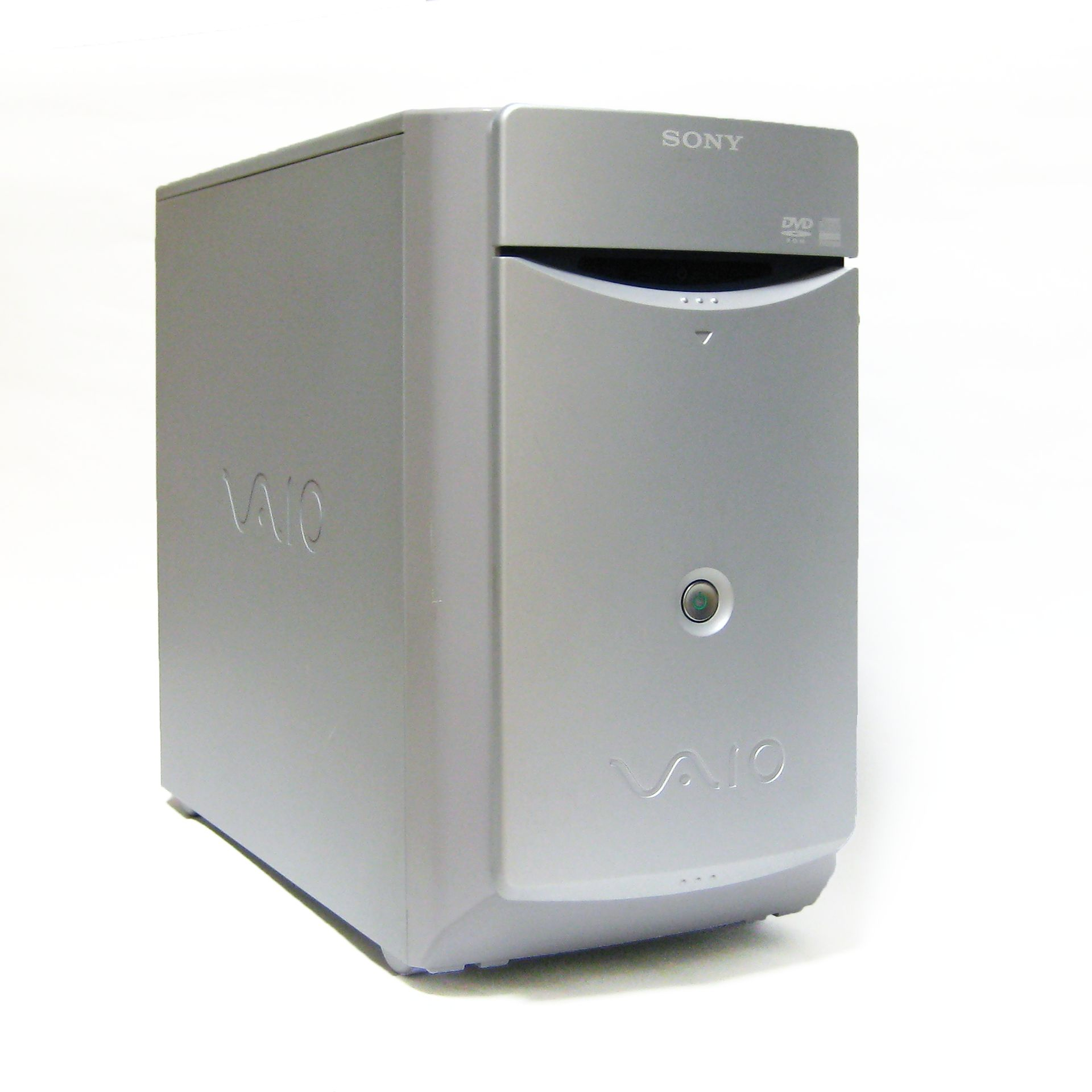 Sony VAIO PCV-J20.